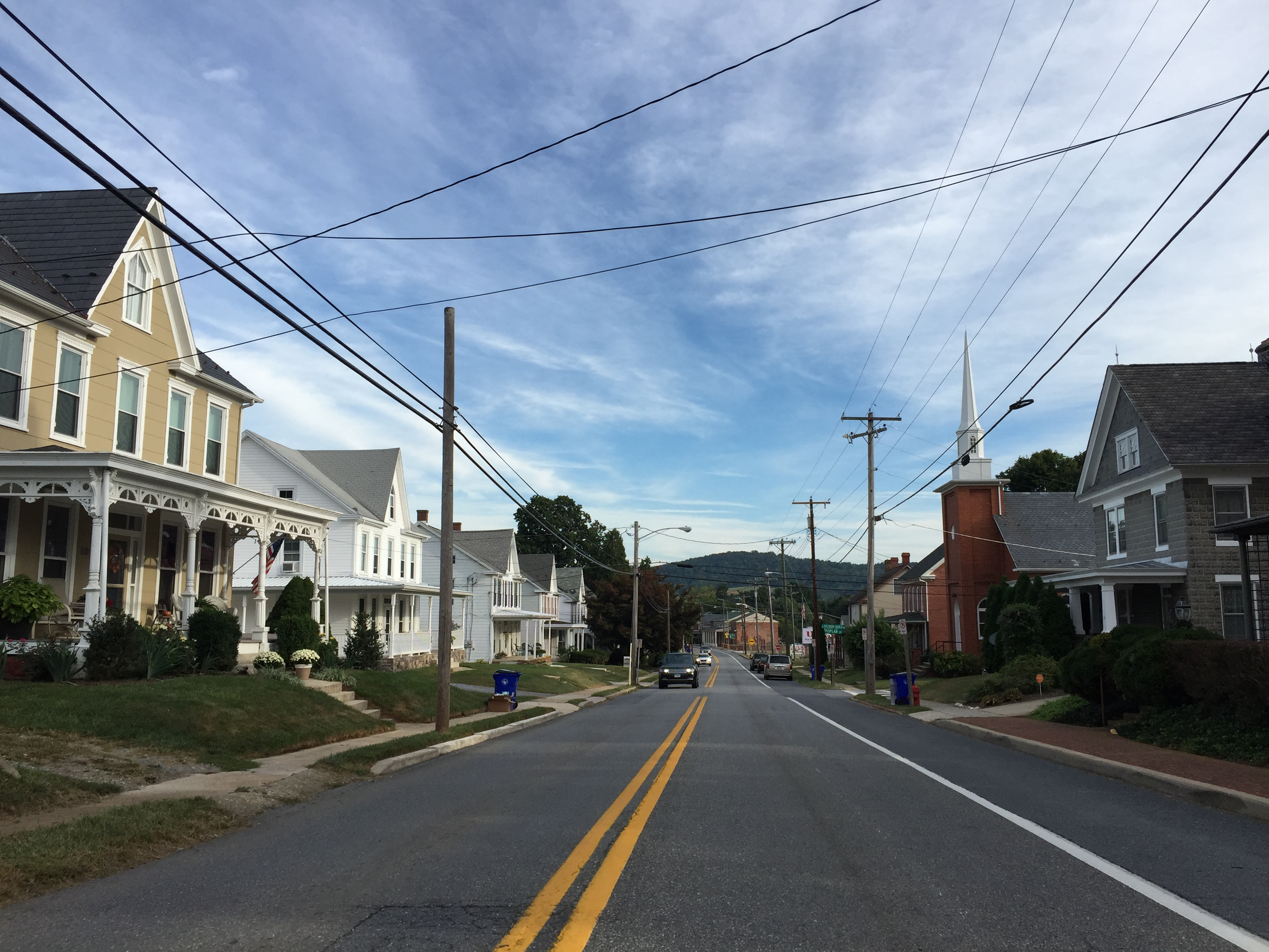 View north along Maryland State Route 17 (Main Street) between Cedar Street and Poplar Street in Myersville, Frederick County, Maryland